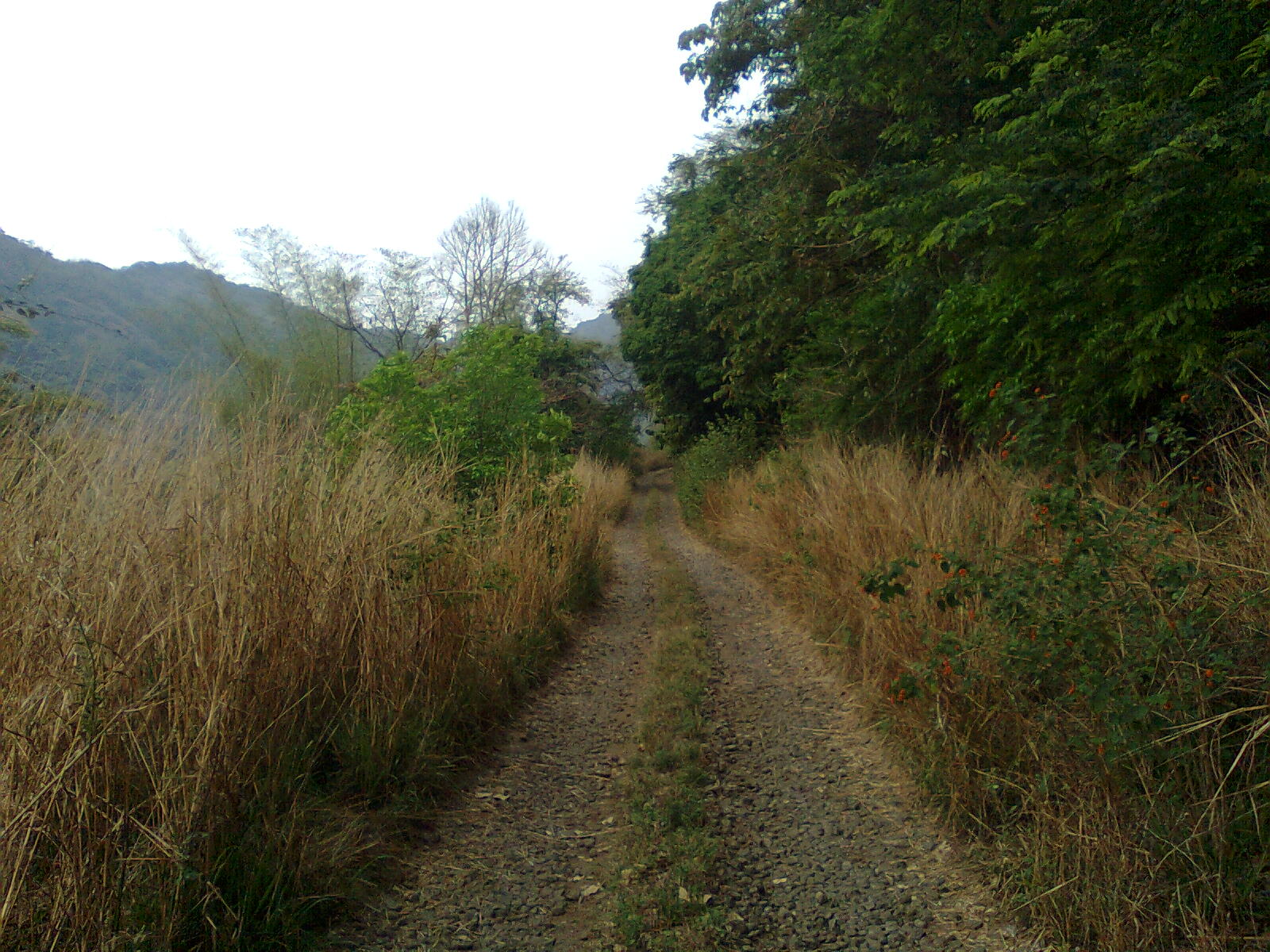 Silent Valley National Park